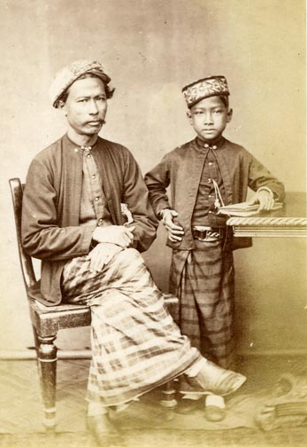 Colonial era photo from Images Of Ceylon website